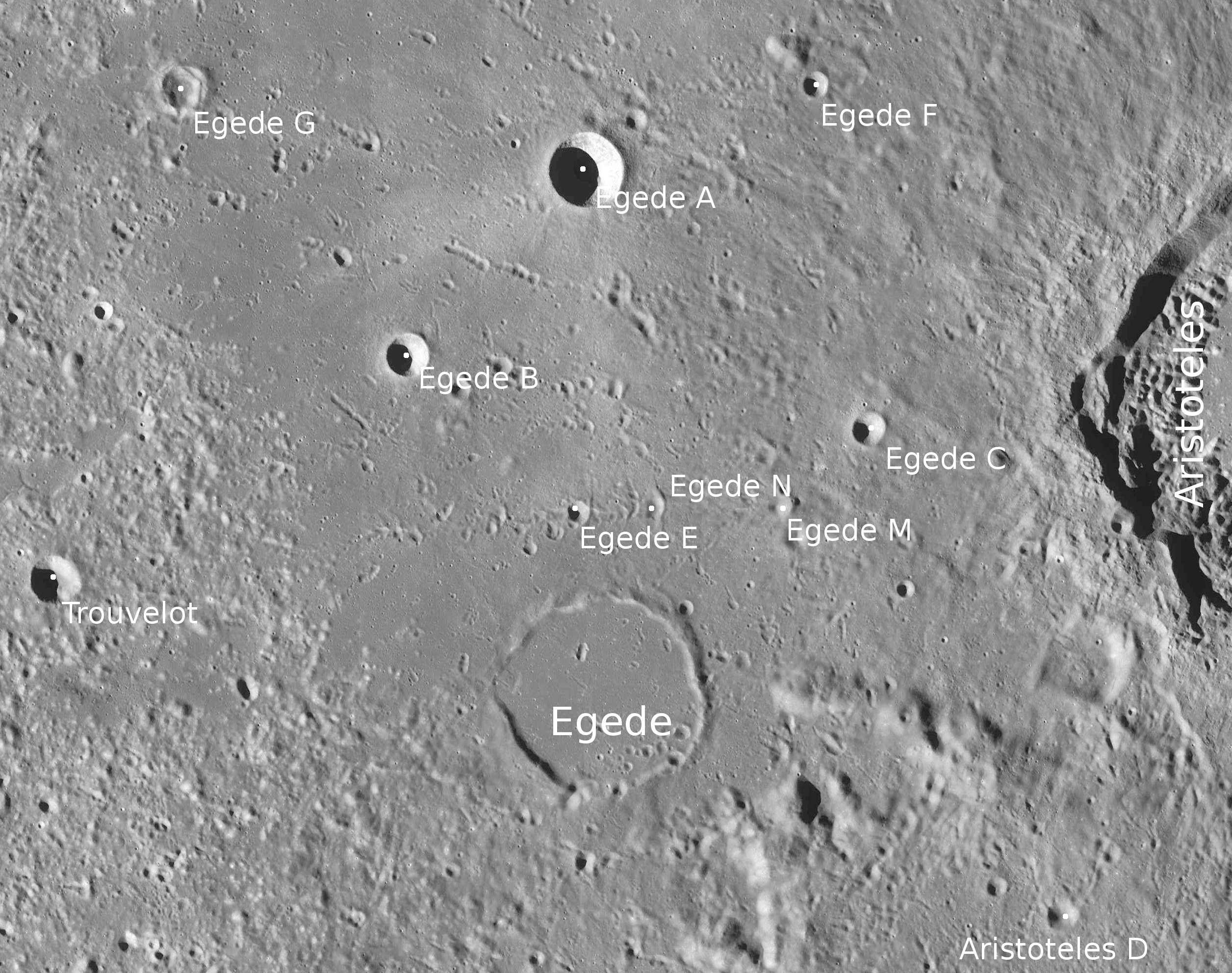 Crater Egede with wall of Aristoteles on the right (detail of LRO - WAC global moon mosaic; Mercator projection)